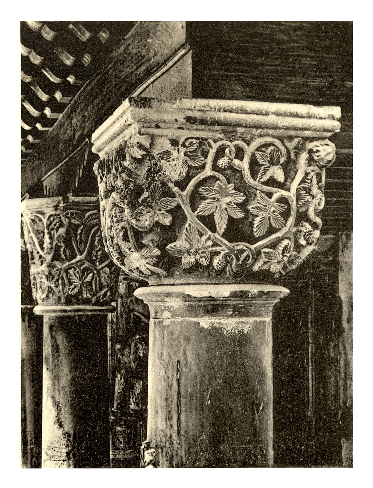 Denkmäler der Kunst in Dalmatien, Herausgegeben von Georg Kowalczyk, mit einer Einleitung von Cornelius Gurlitt. 132 Lichtdrucktafeln nach Naturaufnahmen des Herausgebers Georg Kowalczyk sowie nach Kupfern aus dem Werke von Robert Adam: Ruins of the Palace of the Emperor Diocletian at Spalat(r)o, 1764 Wien, 1910, Verlag von Franz Malota Scanprojekt Bundesdenkmalamt Österreich This scan or this PDF-file was created within the Austrian Wikipedia-project Denkmalpflege Österreich (German only) supported by Wikimedia Germany and Wikimedia Austria as part of the Wikipedia community-project to collect public domain documents from the library of the Heritage Monuments Board of Austria. This document describes or depicts an object which is located in Croatia today. Texts are written in German language. Send requests for uncompressed scans to Hubertl. This work is in the public domain in the United States, and those countries with a copyright term of life of the author plus 100 years or less. This file has been identified as being free of known restrictions under copyright law, including all related and neighboring rights.